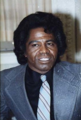 Lee Atwater with James Brown